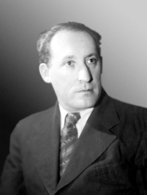 Depicted person: Lazar Lyusternik – Russian mathematician